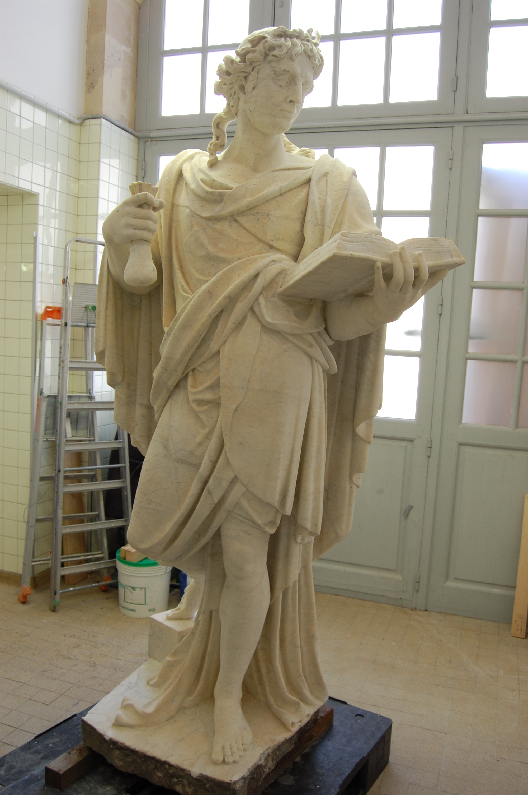 Le Mélancolique (Melancholy) by Michel de La Perdrix, in the statues' restoration workshop of the palace of Versailles